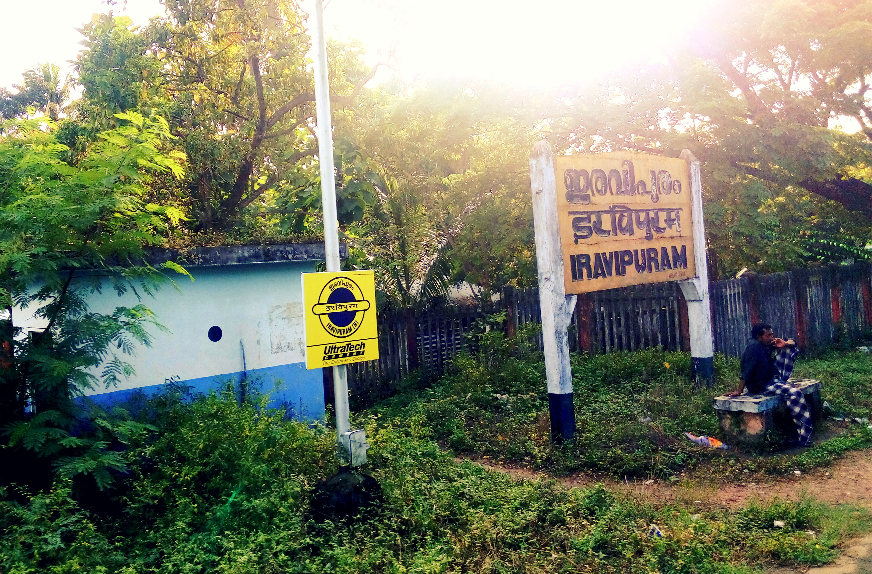 Eravipuram is a city railway station in Kollam(Quilon), India